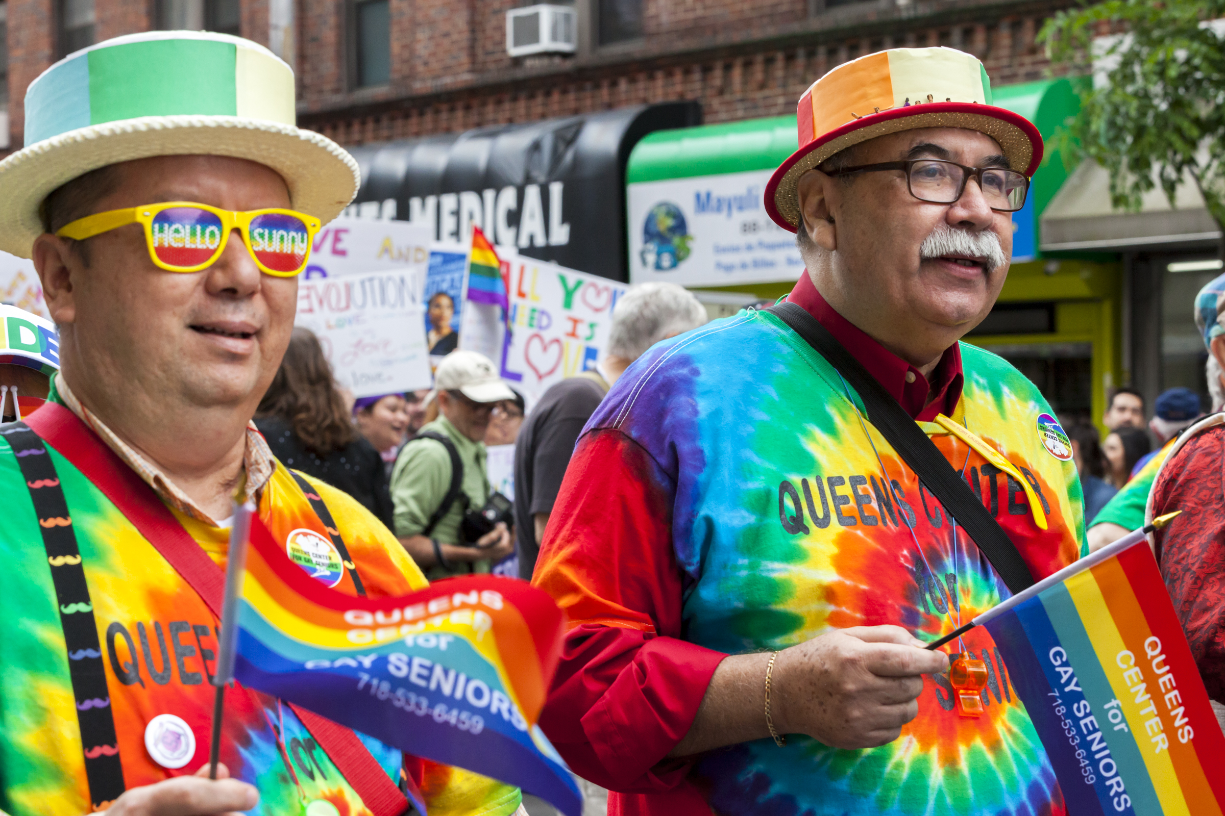 Photos taken for the La Guardia and Wagner Archives at the Queens Pride Parade in Queens on Sunday, June 3, 2018. Photographer: Luisa Madrid.